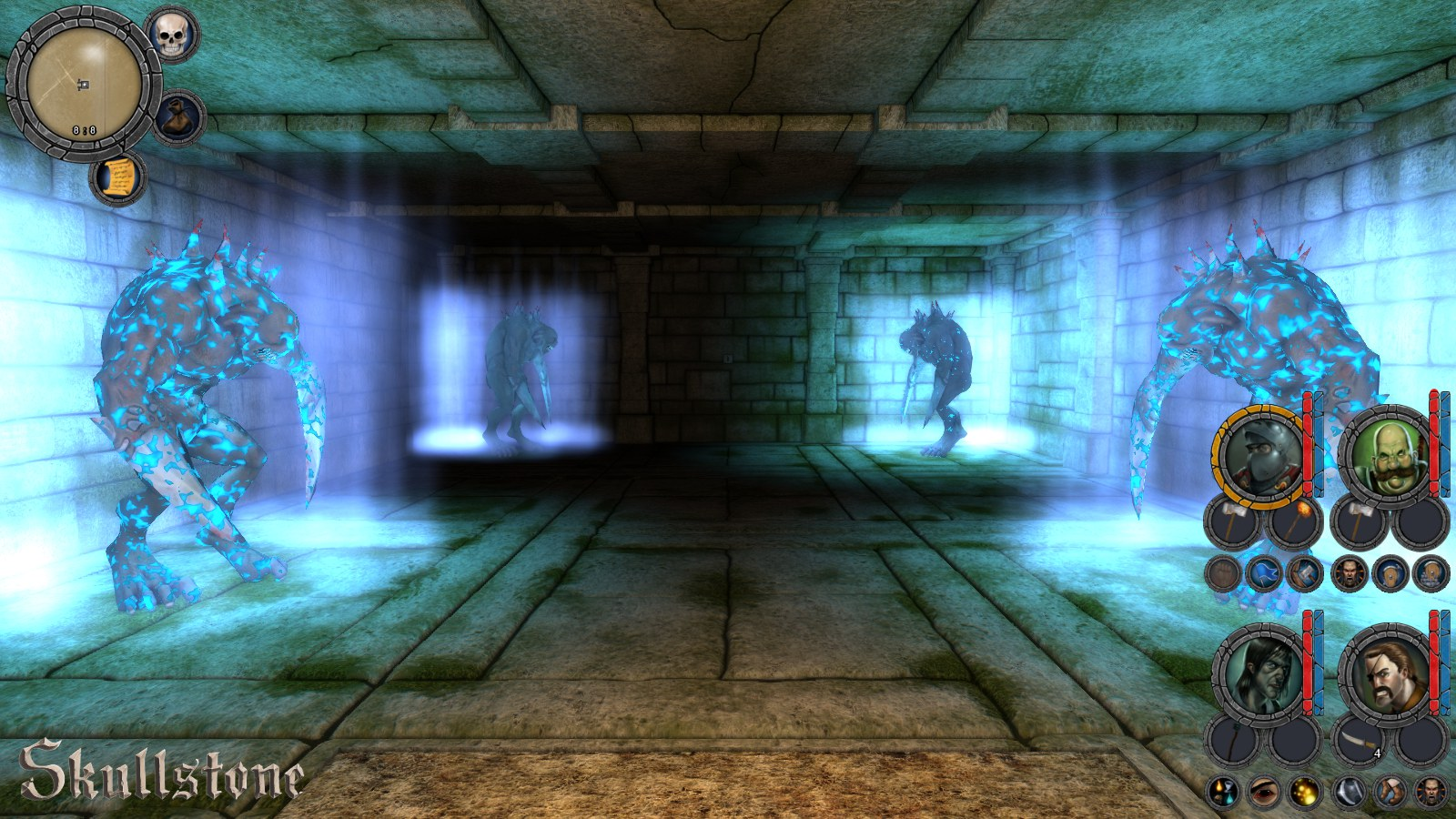 In-game screenshot taken from Skullstone.